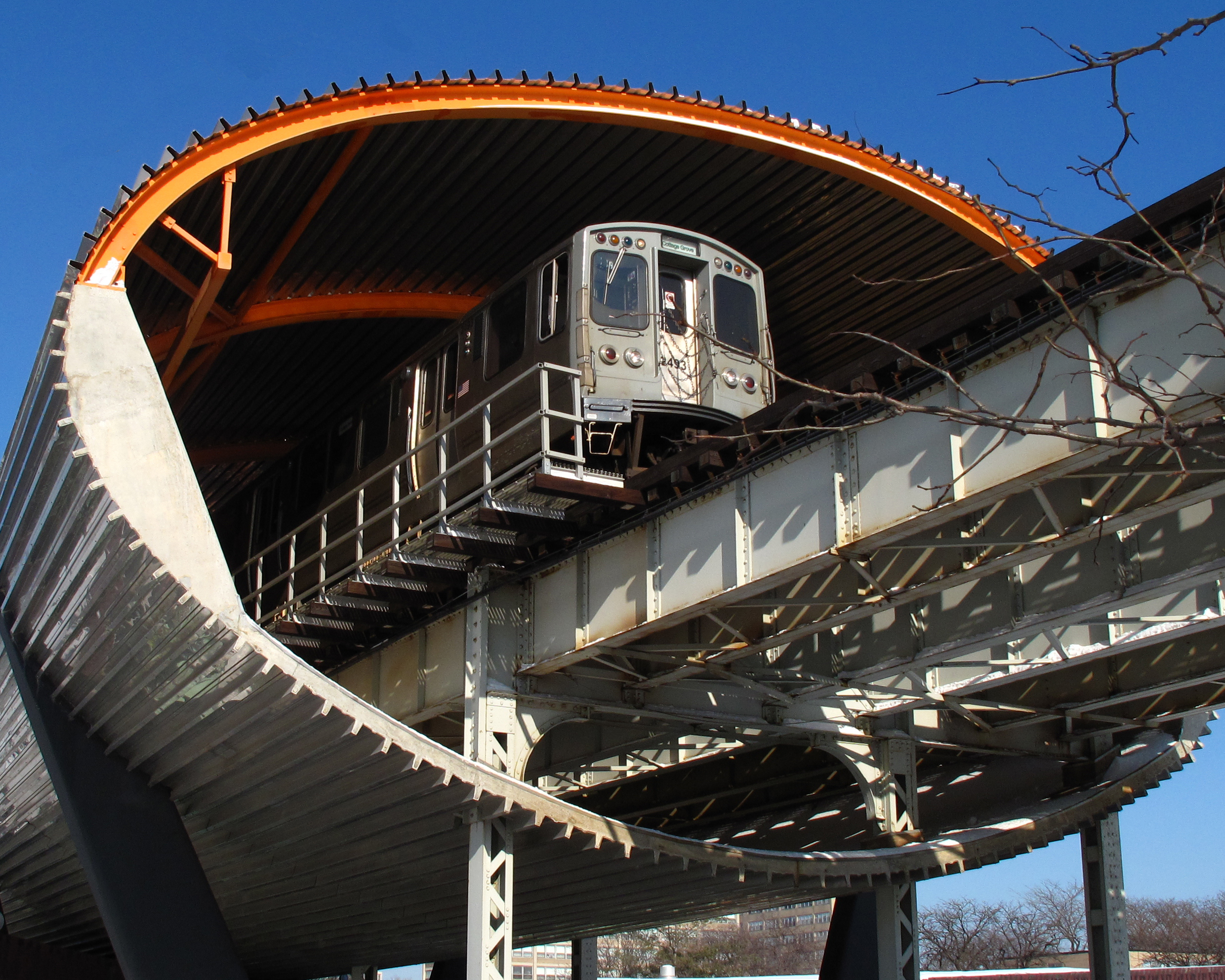 El track tunnel at Illinois Institute of Technology, Chicago